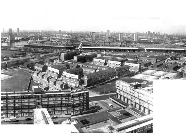 Millwall Panorama, 1974 From a long forgotten roll of negs, this composite is from high up in Kelson House tower block off Manchester Road. The three long buildings are the transit sheds on the east of Millwall Inner Dock labelled Bergen, TAC Loose, TAC Pallets, Canary Exports, Canary Islands Terminal, Med Loose, Med Pallets, North Sea. To left can be seen the corner of the Outer Dock and Granary. In the foreground is the Glengall Estate, with the Mudchute beyond.